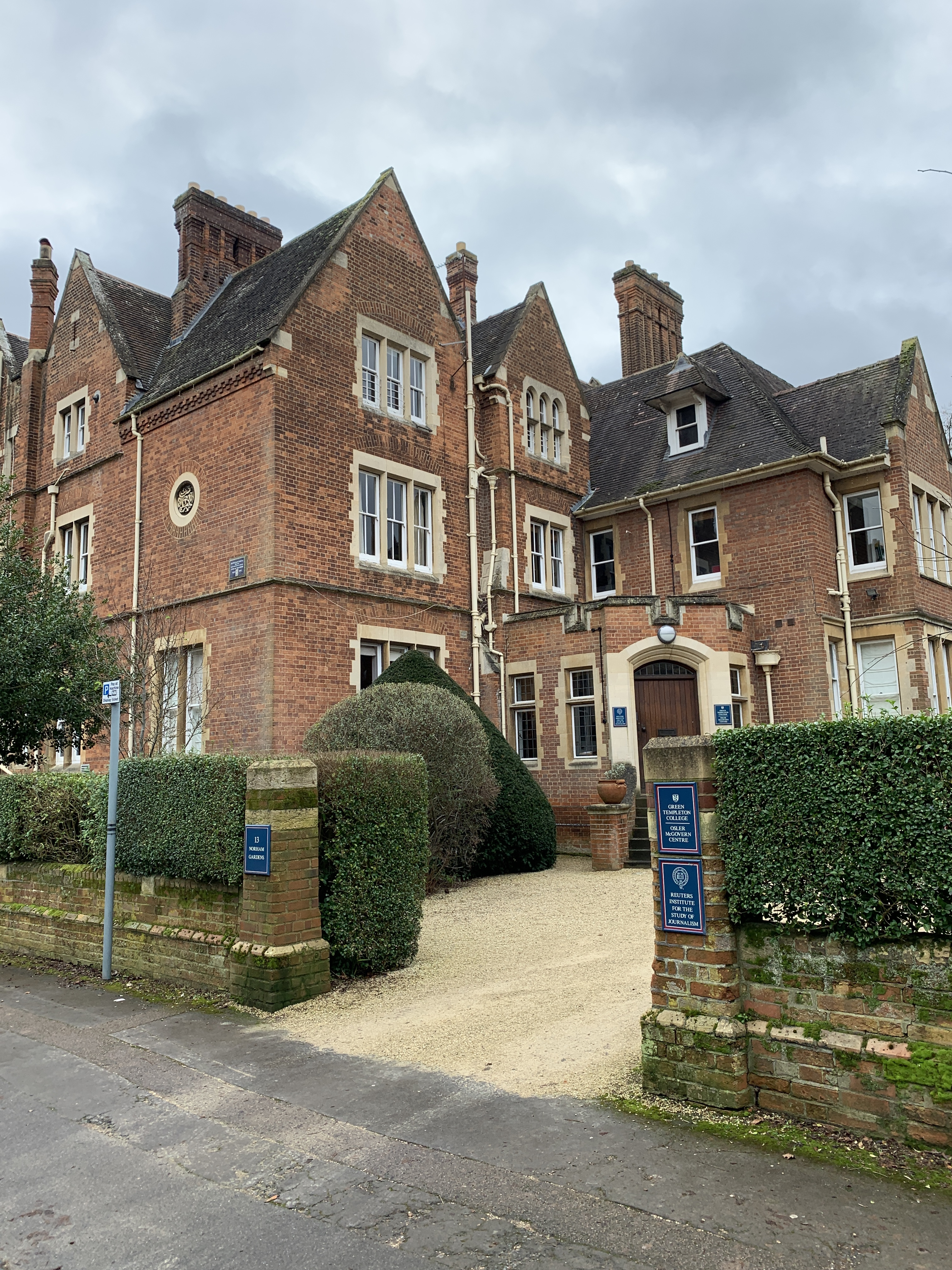 13 Norham Gardens, historic site, residence of Sir William Osler from 1906/7